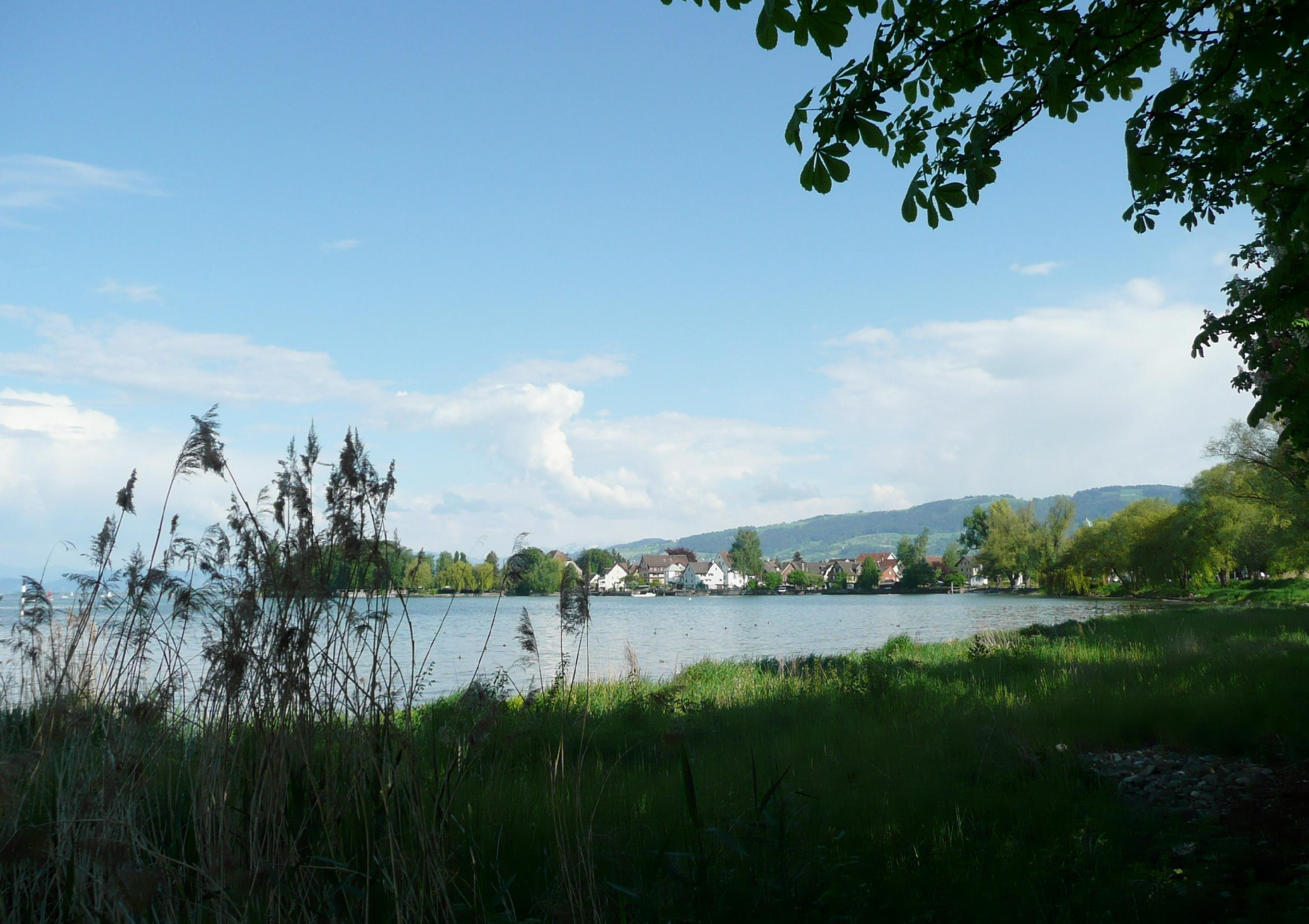 Lake Constance in Steinach, Switzerland